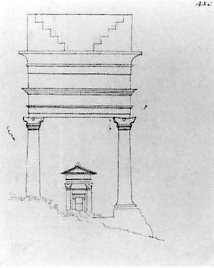 Sketch of the exterior of a tomb in Petra.